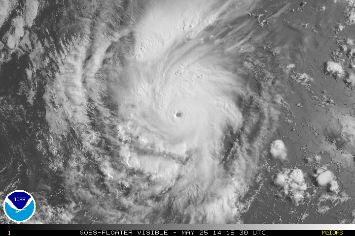 This is satellite imagery of Hurricane Amanda in the eastern Pacific Ocean on May 25, 2014 at 1530 UTC; at the time of the imagery, Amanda was at Category 4 intensity on the SSHWS.